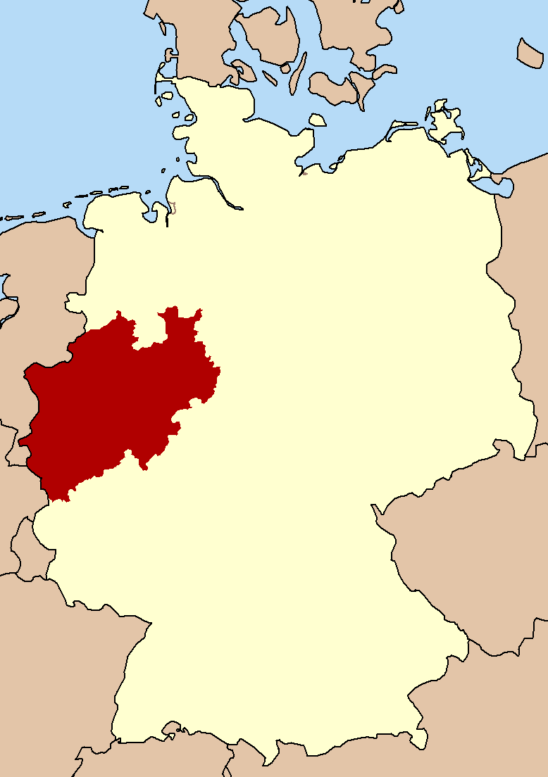 location of the west German Handball Federation